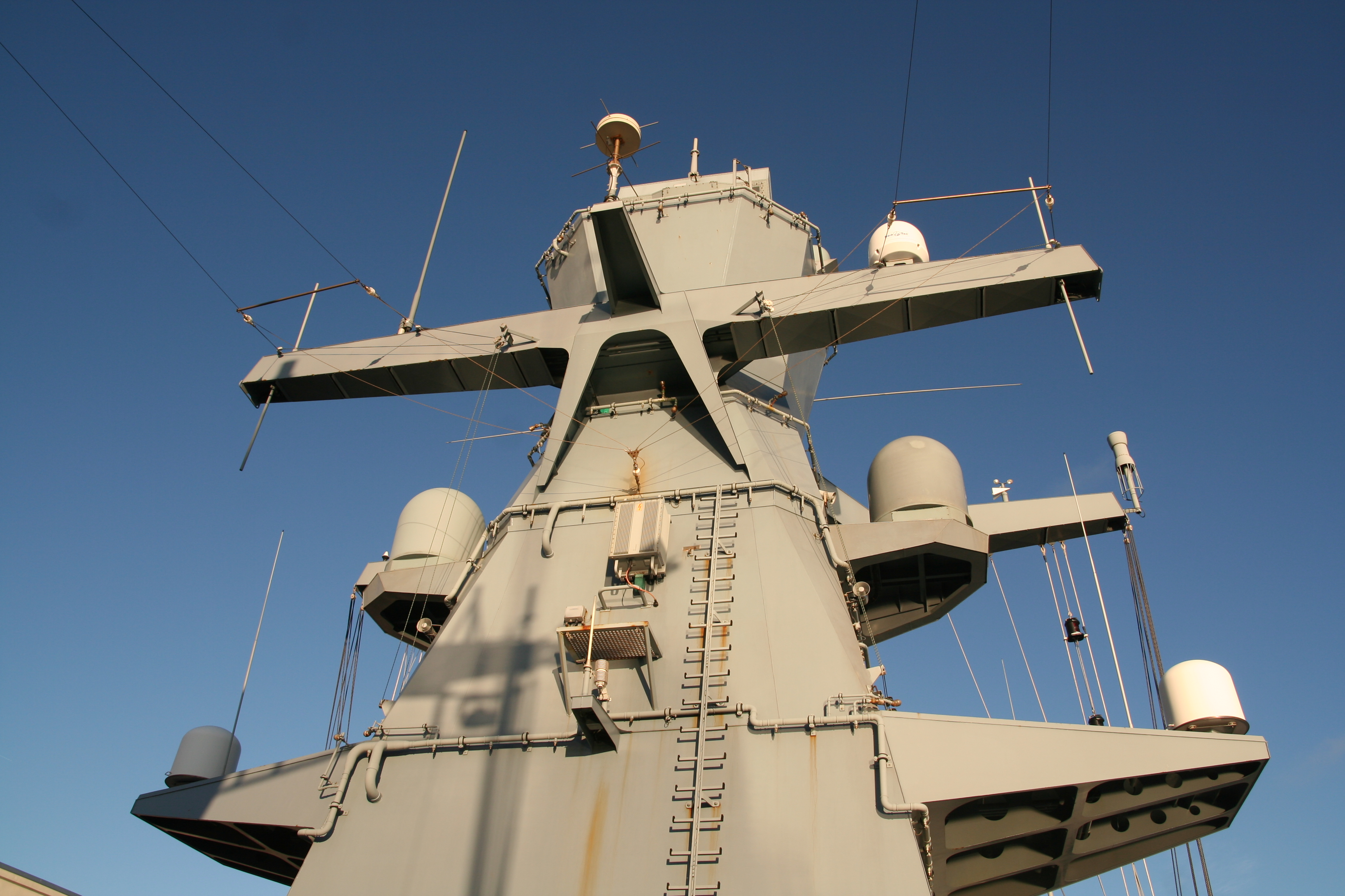 The fore mast of F260 Braunschweig, seen from the back.